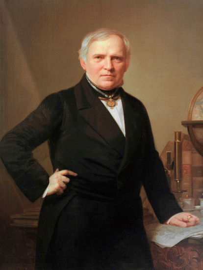 Christian Gottfried Ehrenberg painted by Eduard Radke